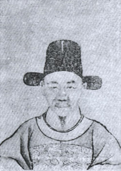 Official portrait of Sheng Yiguan, the Ming Chancellor